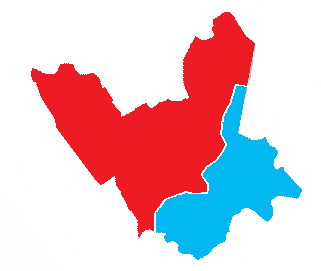 Two-colored map of Valenzuela City showing its two legislative districts